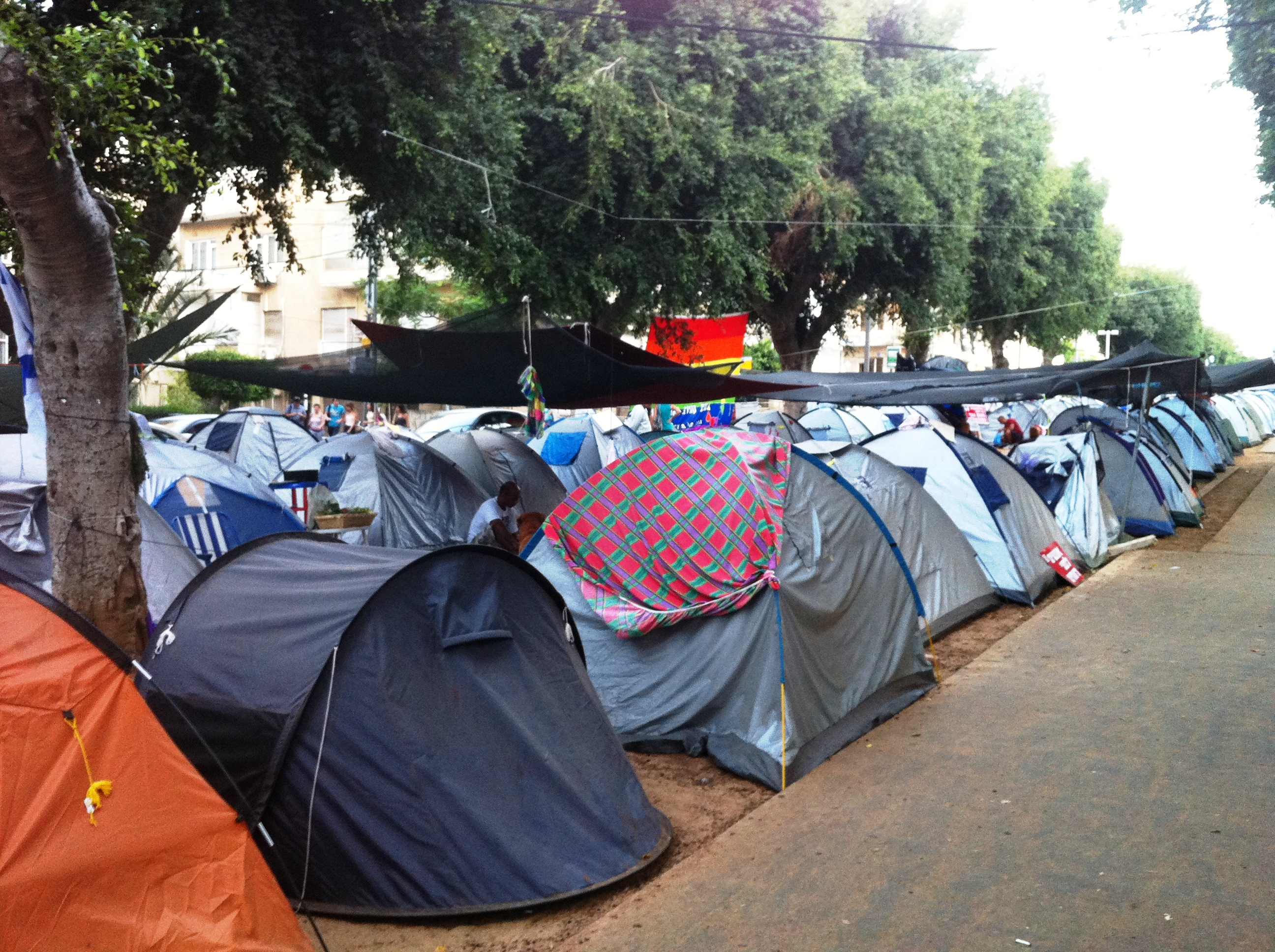 Real Estate Protest in Tel Aviv 25.7.2011